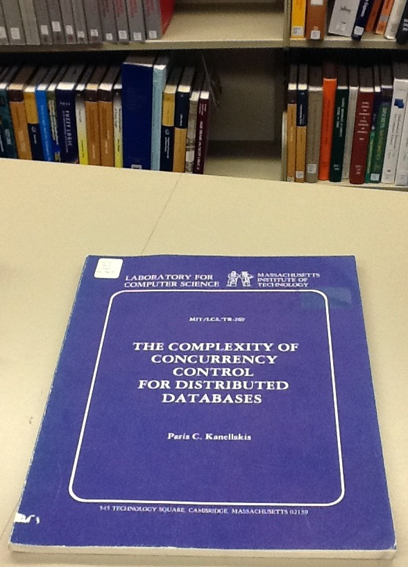 Photo of a copy of Paris C. Kanellakis' Ph.D. Thesis at MIT. Taken in a library of MIT.